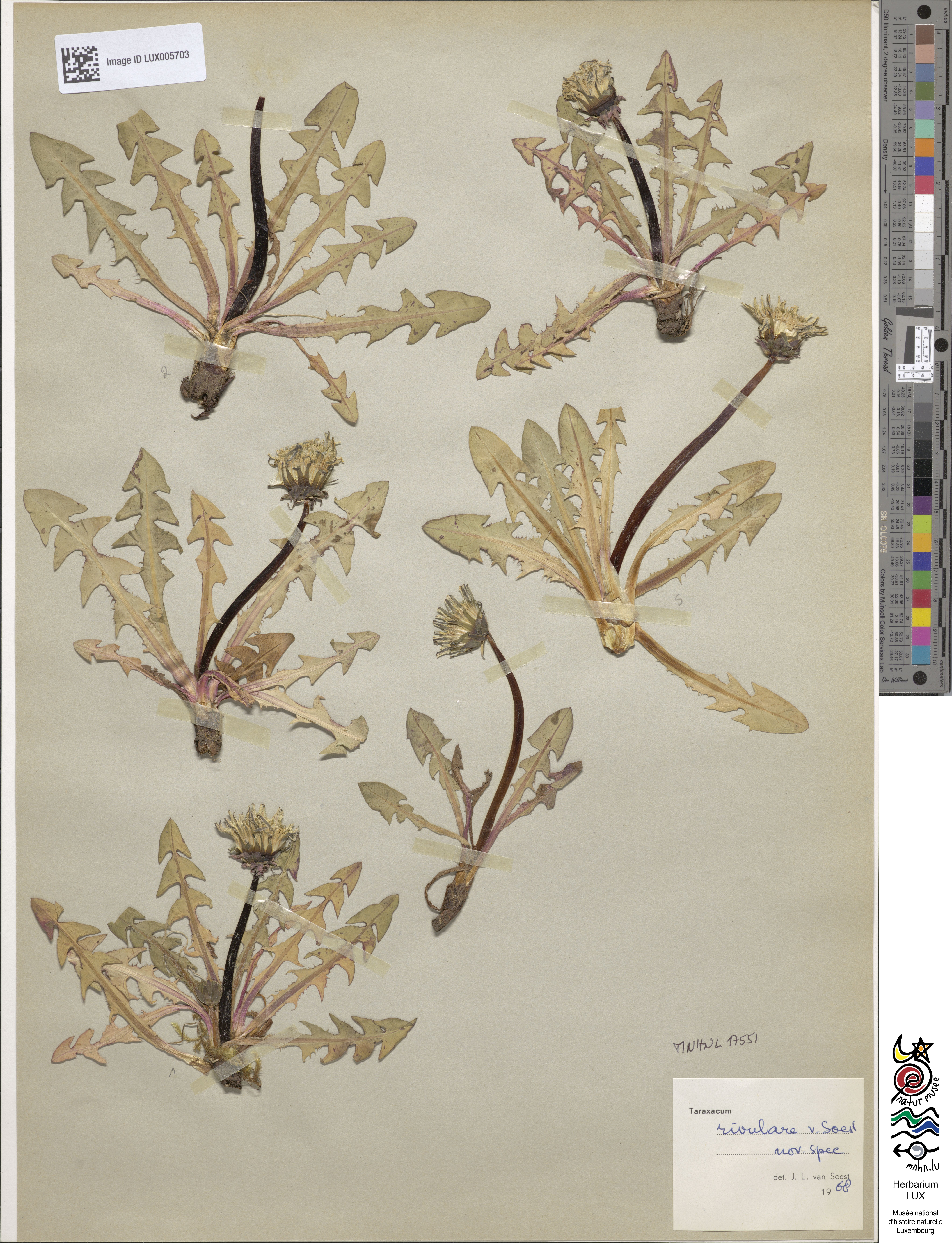 Herbarium sheet of type specimen of Taraxacum rivulare Soest 1971 kept at the Herbarium LUX at the MnhnL, sheet 2of2